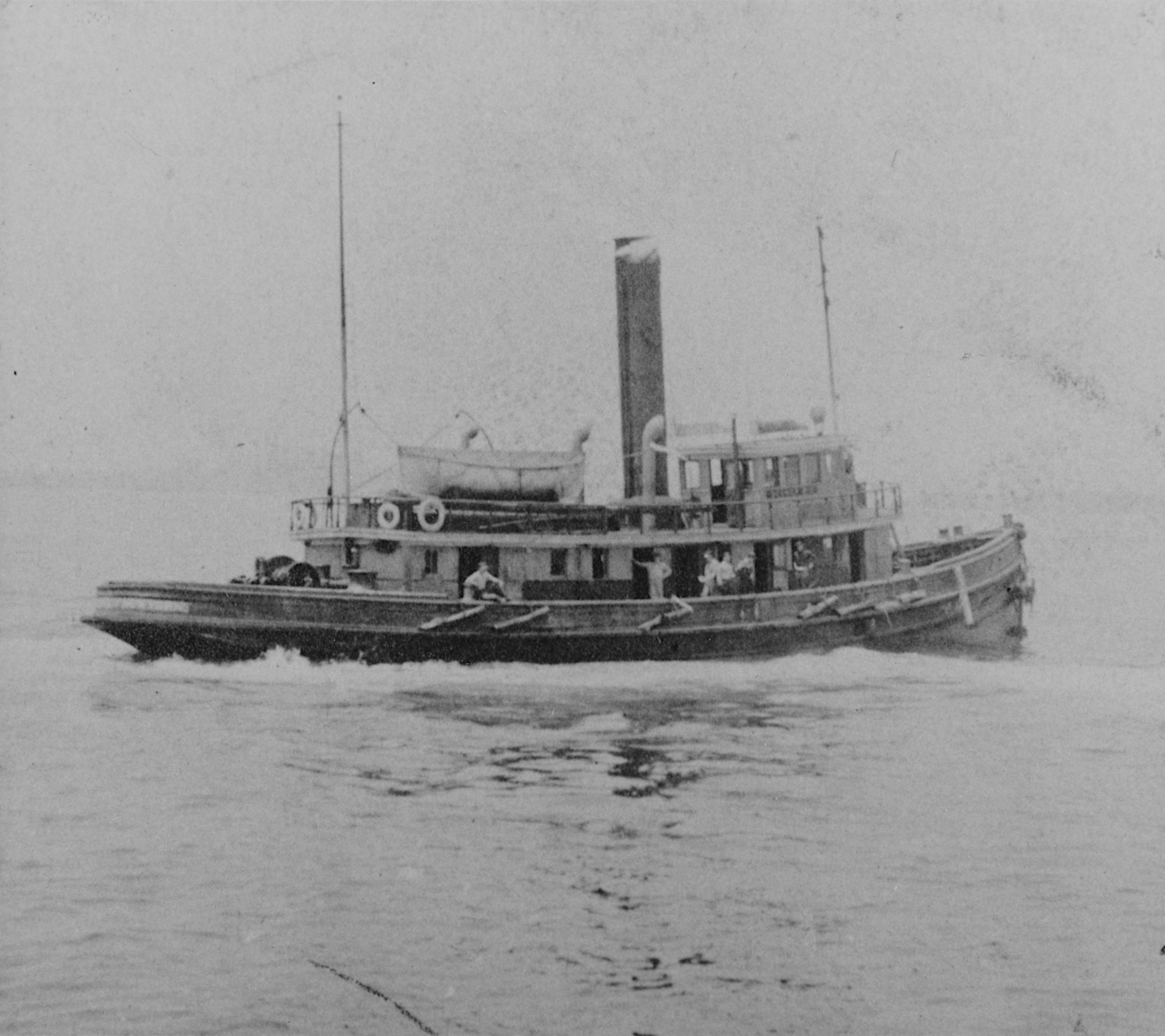 Tug Bouker No. 2 prior to her 1917-1921 United States Navy service as USS Bouker No. 2 (SP-1275), later YT-30.